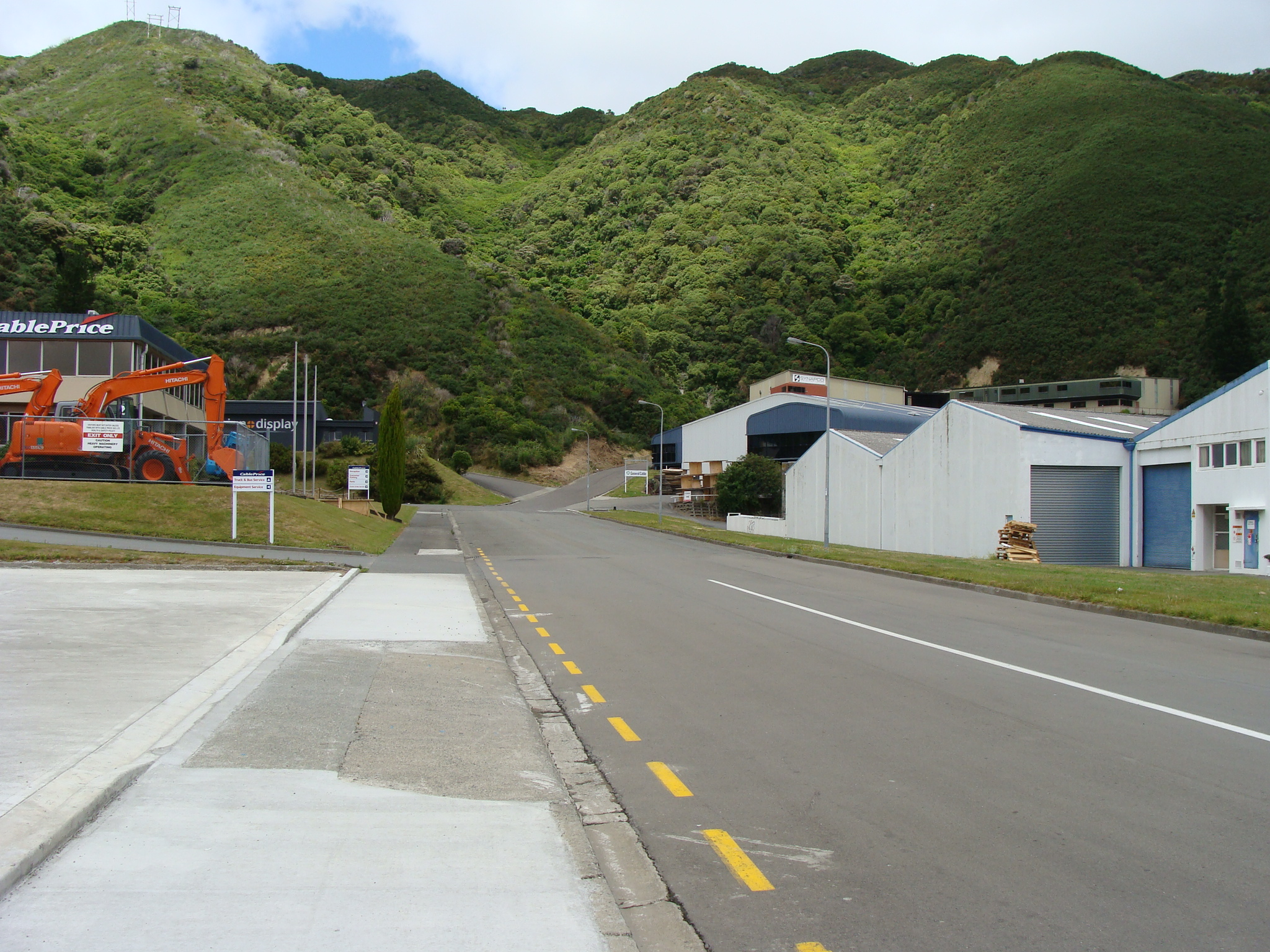 Tunnel Grove, Gracefield, New Zealand.